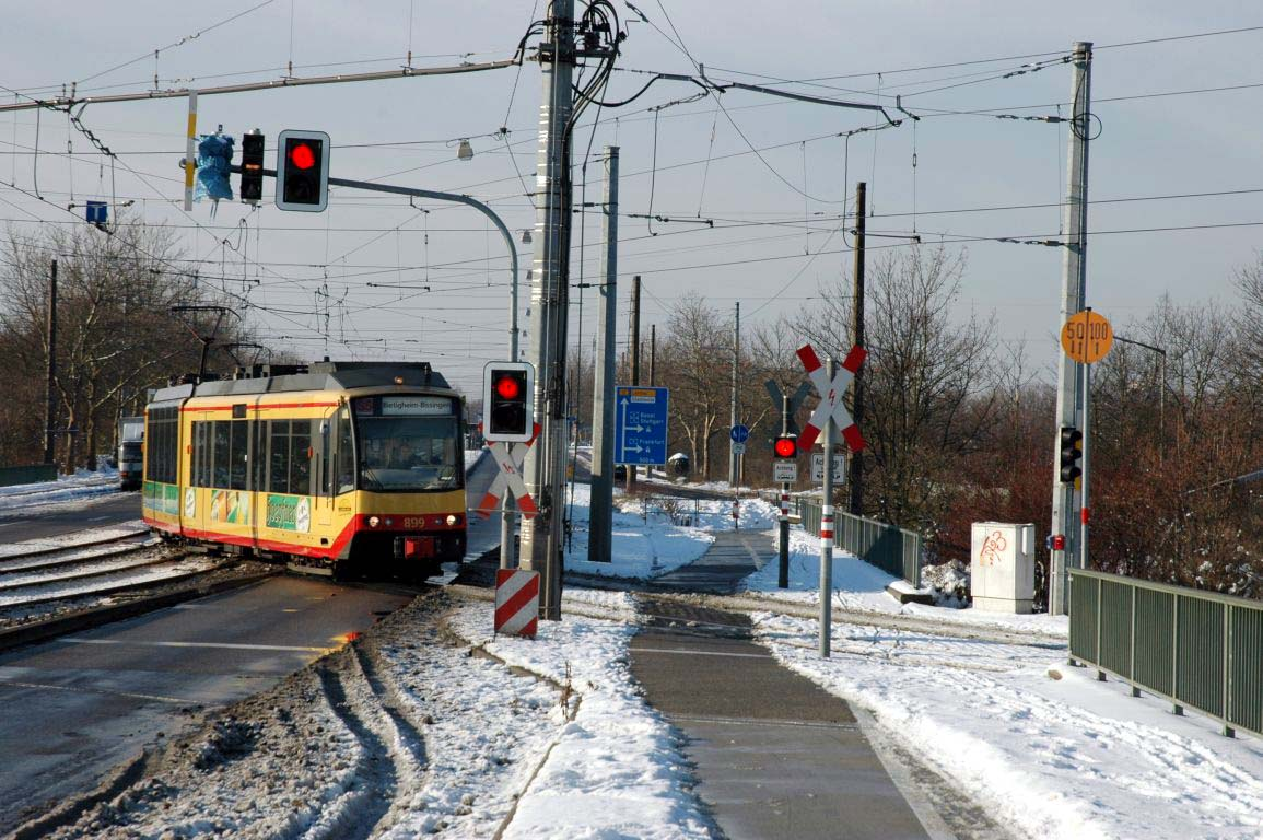 AVG car number 899, type GT8-100D, in Karlsruhe-Durlach (junction with tram tracks). Train number 85623 leaves Karlsruhe-Durlach and will travel to Pforzheim on the Deutsche Bahn tracks.